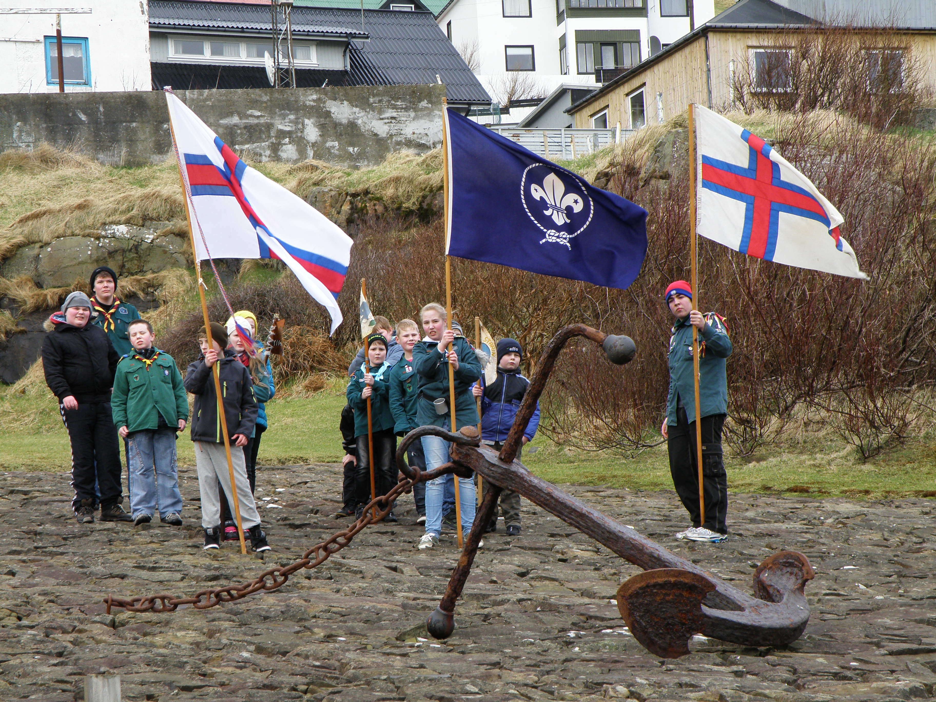 Every year on 12 March the Faroese people celabrate the return of their national bird the oyster catcher, in Faroese called Tjaldur, the day is called Grækarismessa. In some villages they gather to celabrate it with speeches and song. This was in Vágur in Suðuroy, the day before Grækarismessa, on a square in town called Minnisvarðin. The event always starts with a procession by the local scouts (skótarnir). There is a monument in memory of people lost at sea. Johan Dalsgaard held a speech and the choir Ljómur sang a few songs. Føroyskt: Grækarismessuhald við Minnisvarðan í Vági hin 11. mars 2012. Kirkjukórið Ljómur sang, Johan Dalsgaard (Johan í Fámara) helt røðu.